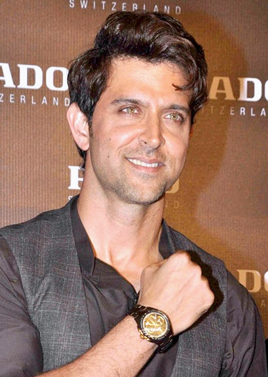 Indian actor Hrithik Roshan at the launch of Rado's new collection in 2016